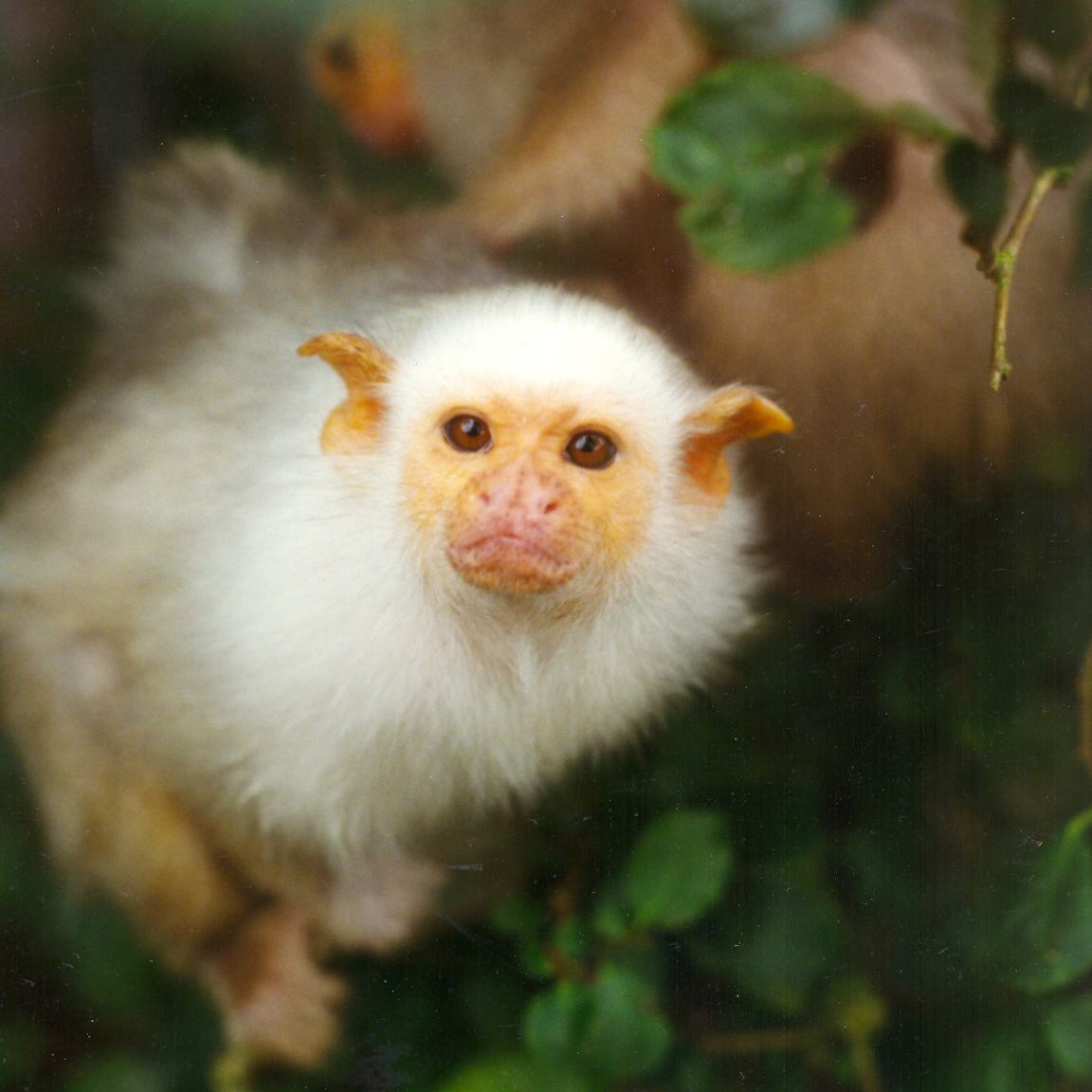 silver marmorset (Callithrix argentata), technical details to follow.